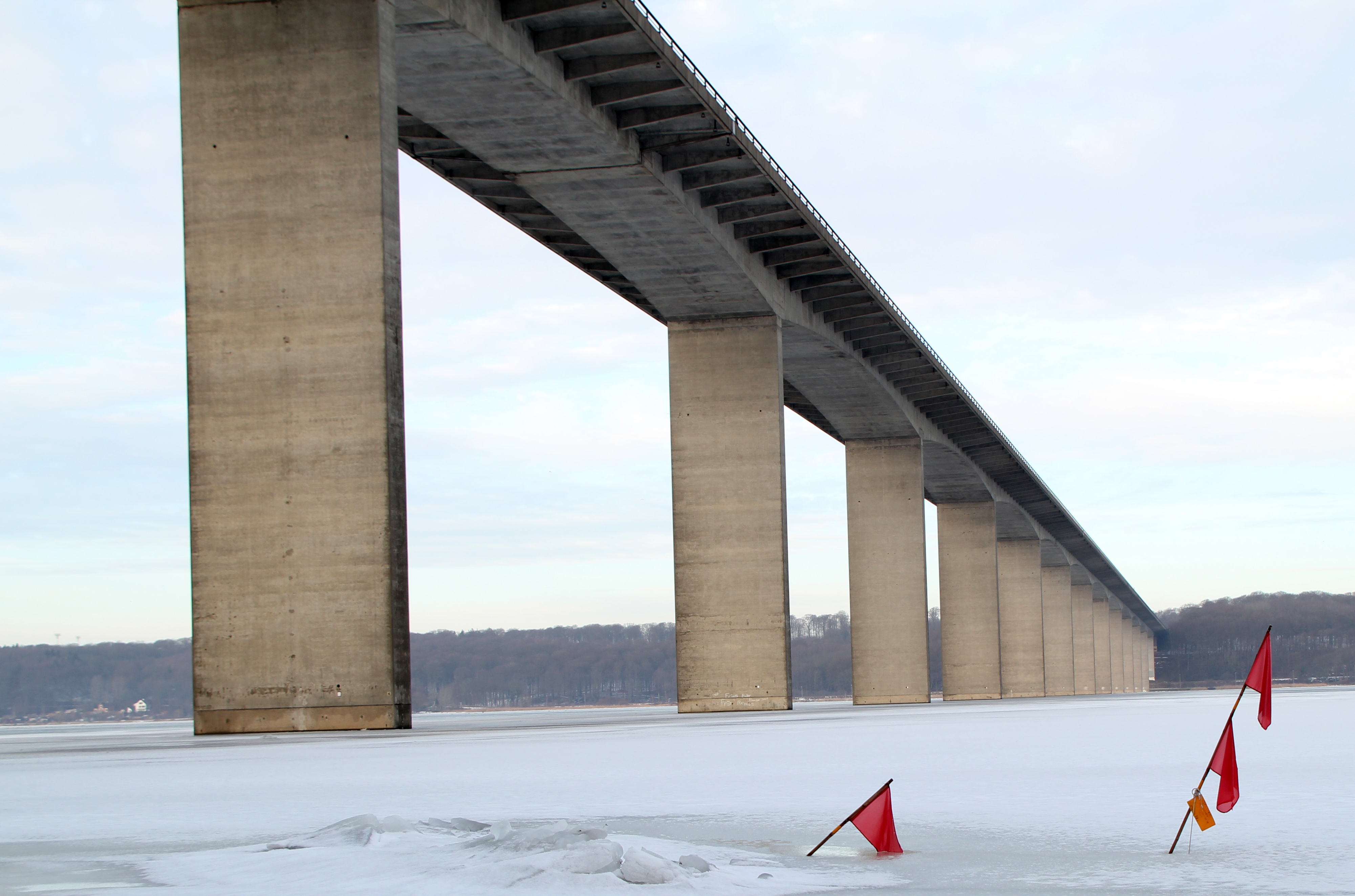 The Fjord Bridge seen from the southern shaw of Vejle Fjord in the winter of 2010-11